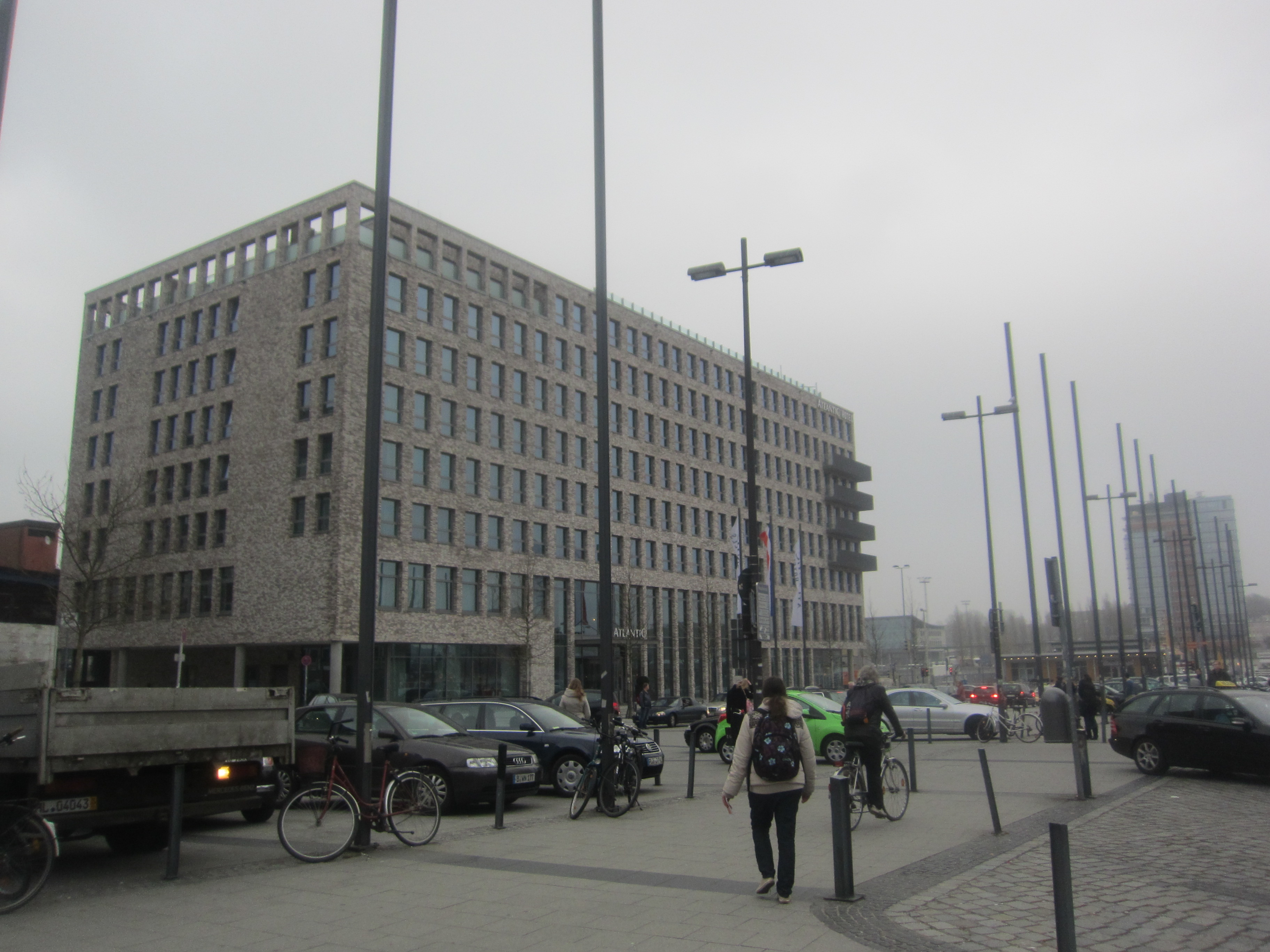 Hotel "Atlantic" in Kiel-Vorstadt